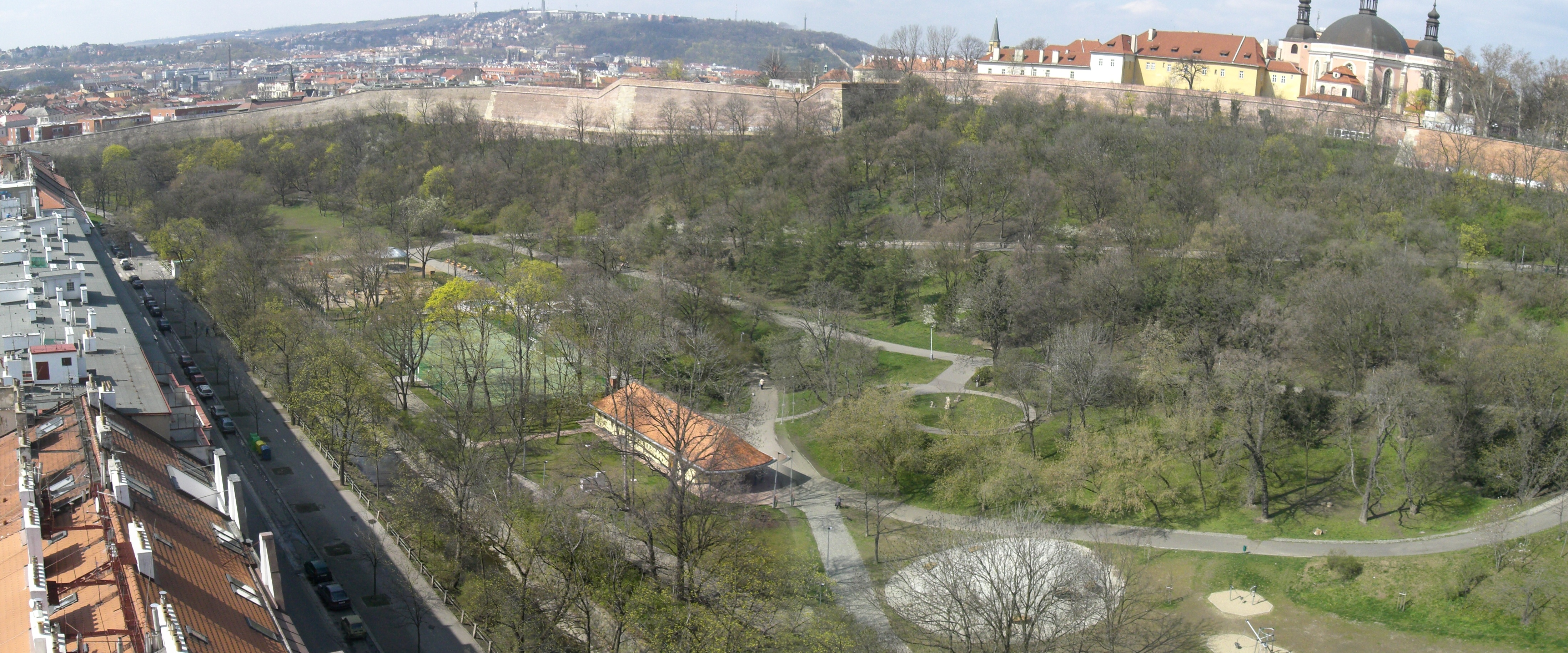 Folimanka park in Nusle, Prague, Czech Republic.